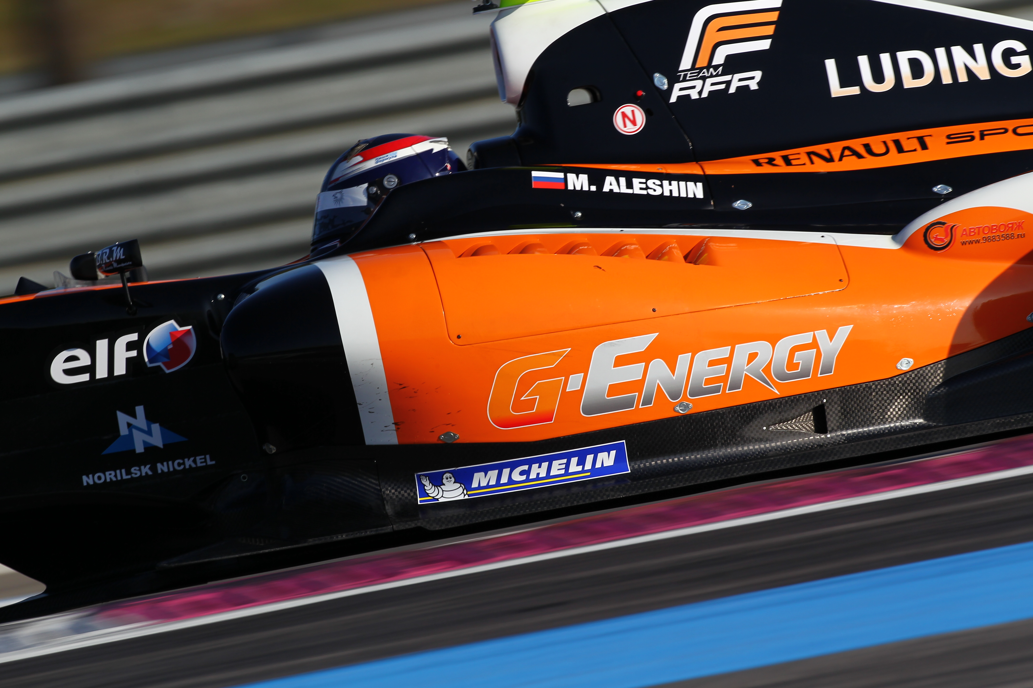 Team RFR is a russian racing team competing in world series